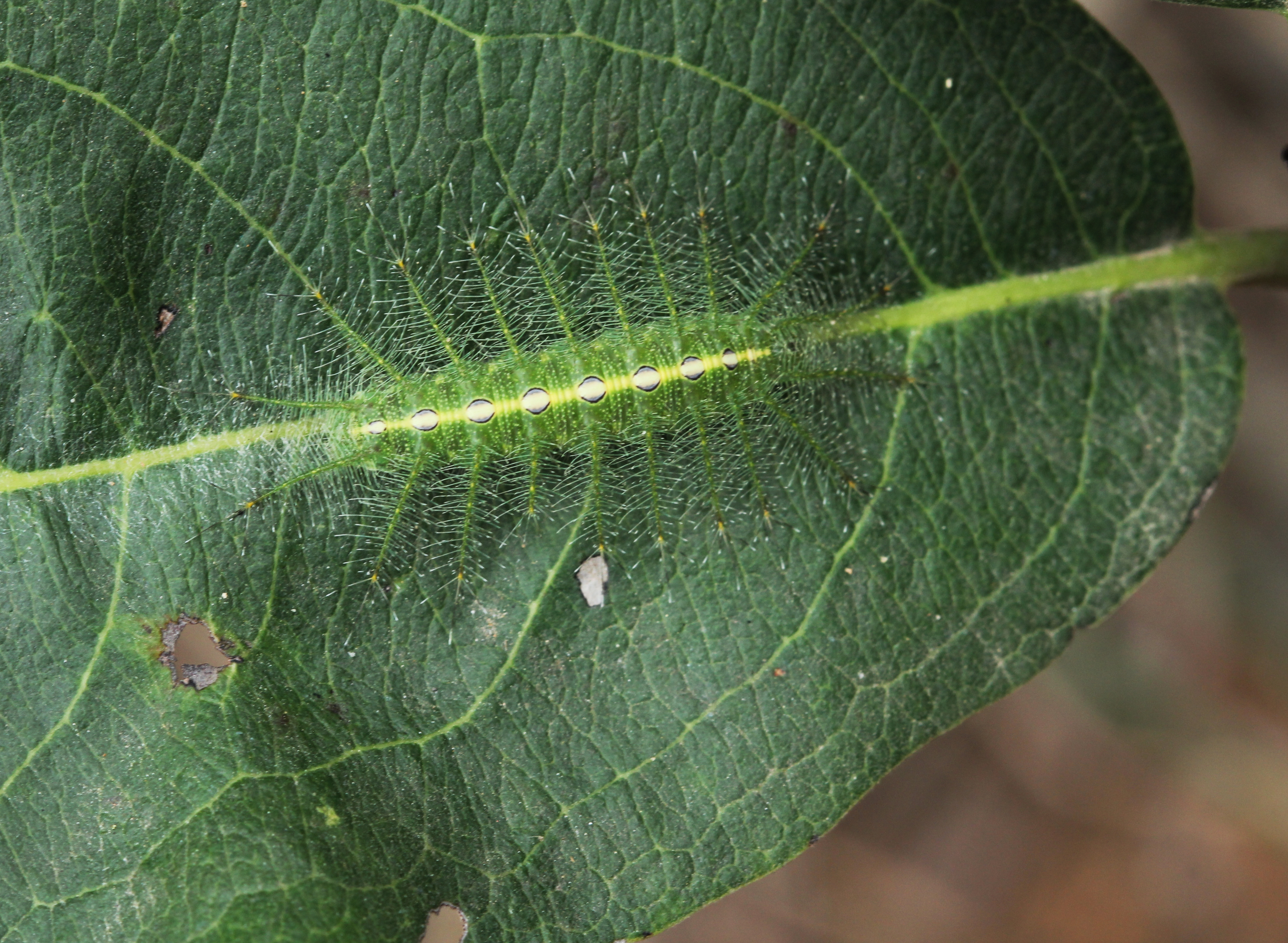 It is a baronet caterpillar characterized by purple spots and green spines